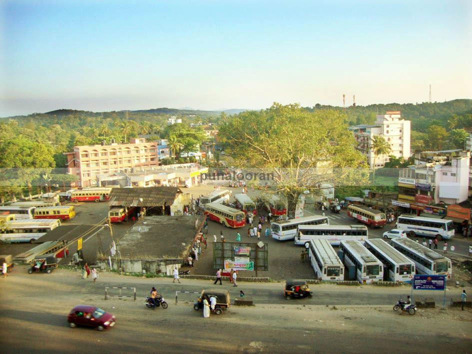 ksrtcbustand